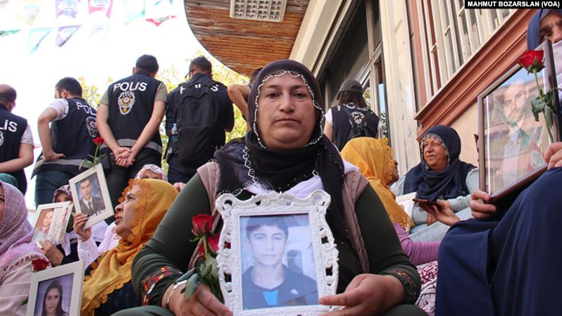 Sit-in of mothers from Diyarbakir against PKK, in front of HDP building